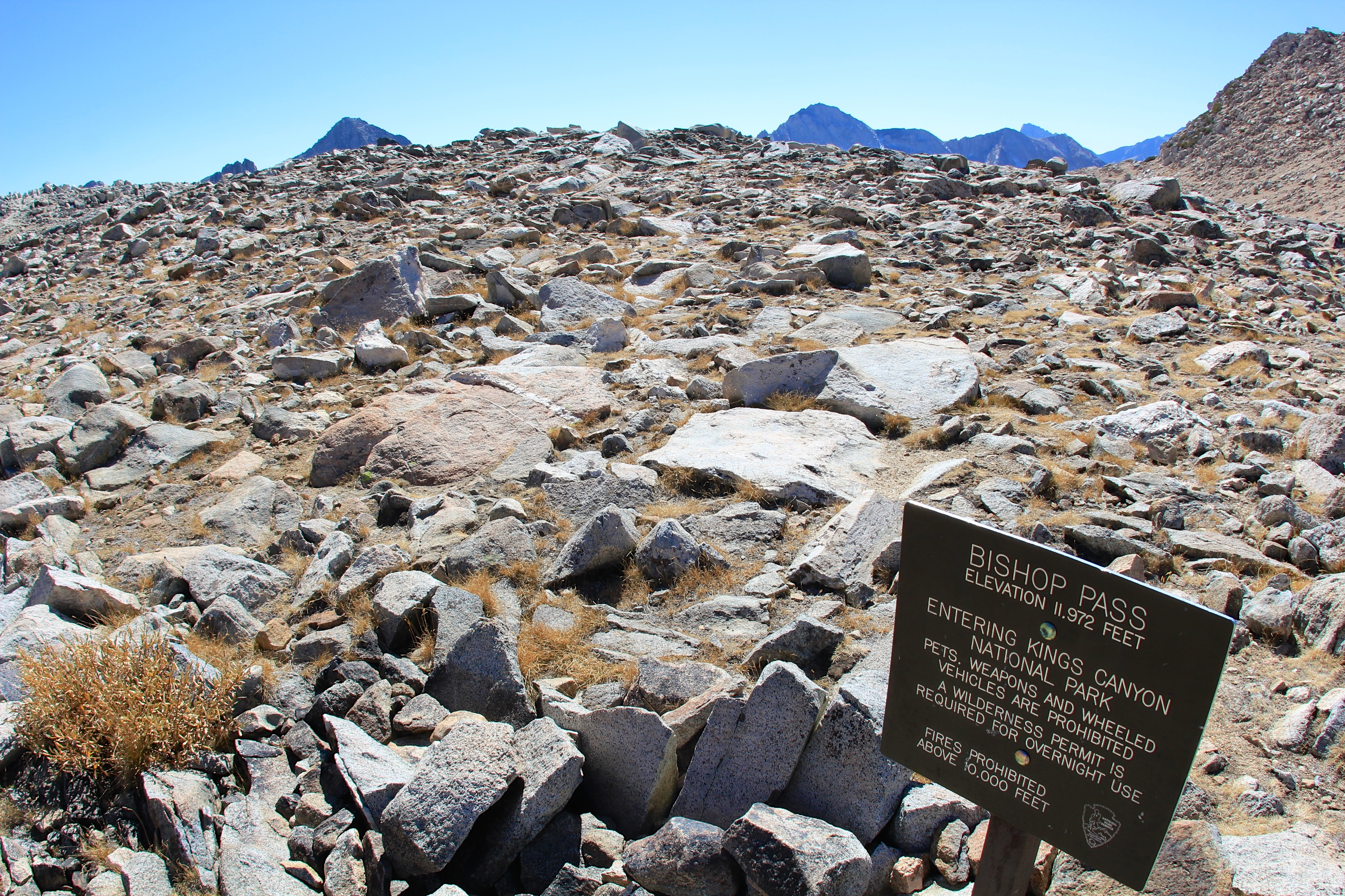 @ Bishop Pass Trail, California